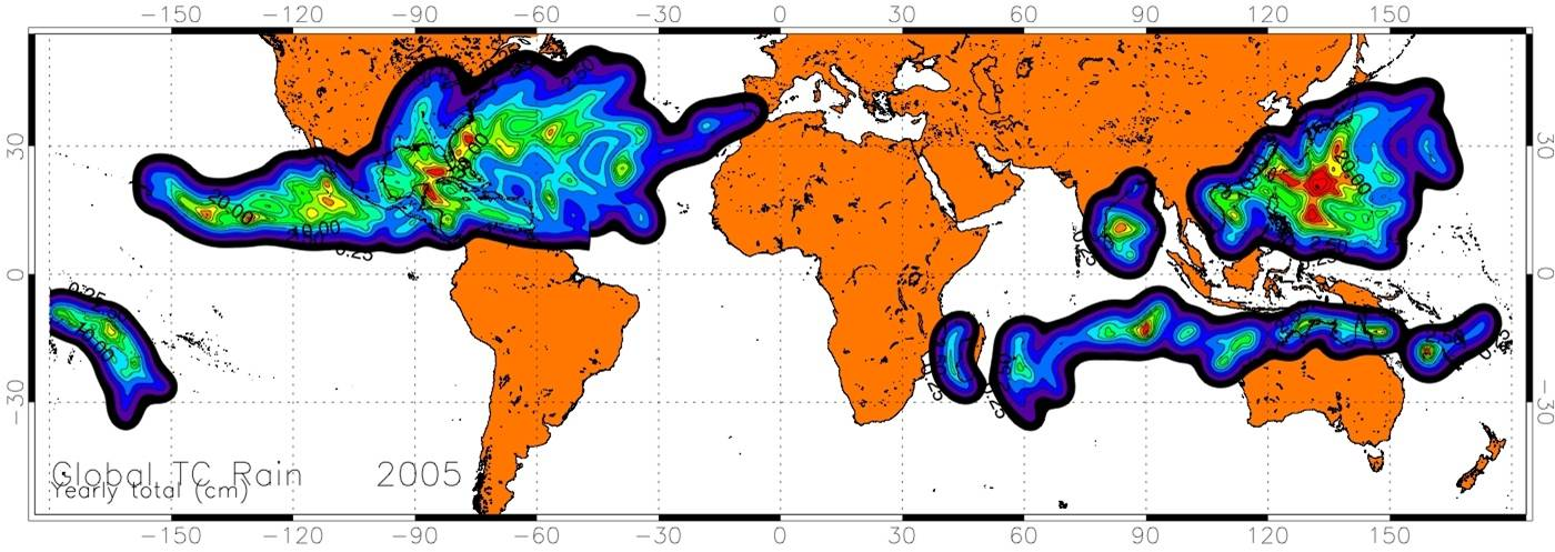 Image originally from Frank Marks of HRD. Within tropical cyclone rainfall presentation presented by David Roth in July 2007.